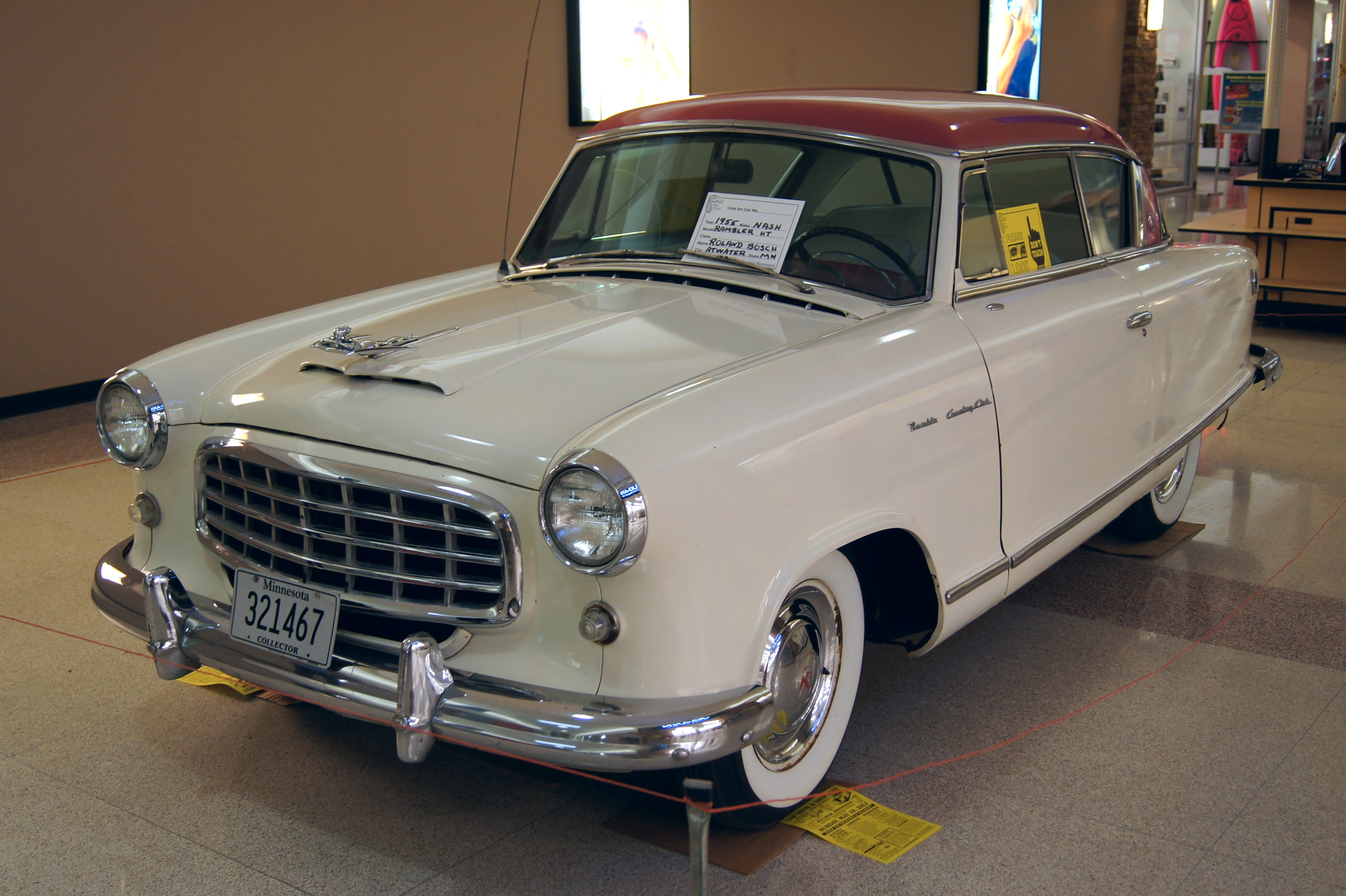 2013 Willmar Car Club Kandi Mall Display